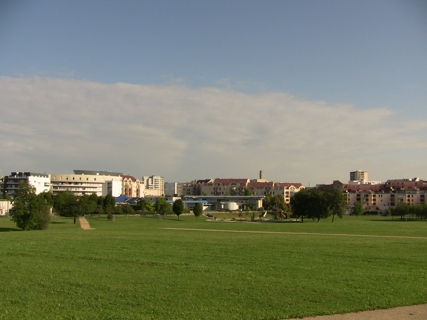 View of the urban park of Planoise, located to Besançon (France)